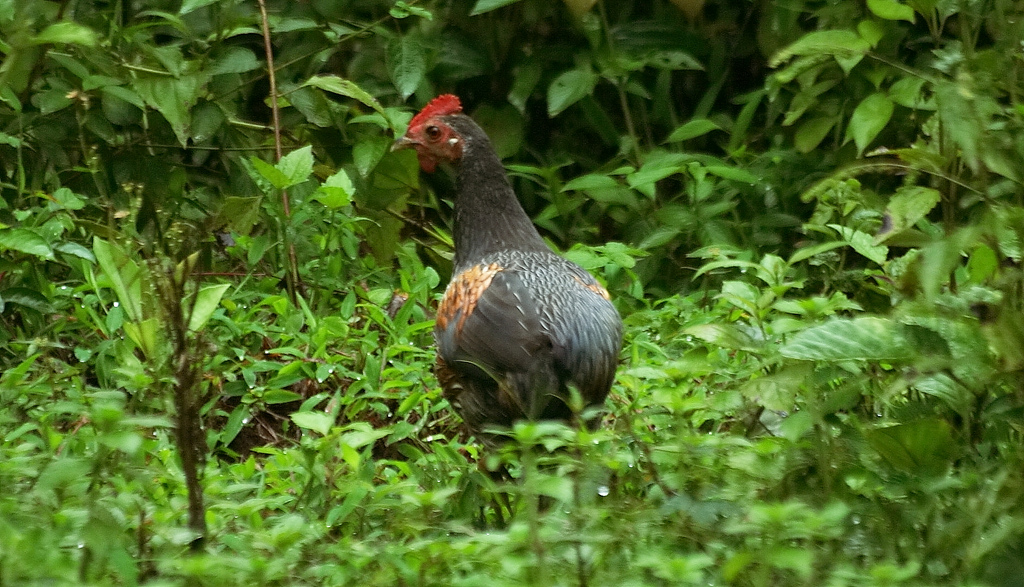 A male Grey Junglefowl in Kerala, India.